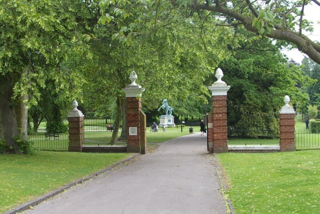 Gateway to Malvern Park